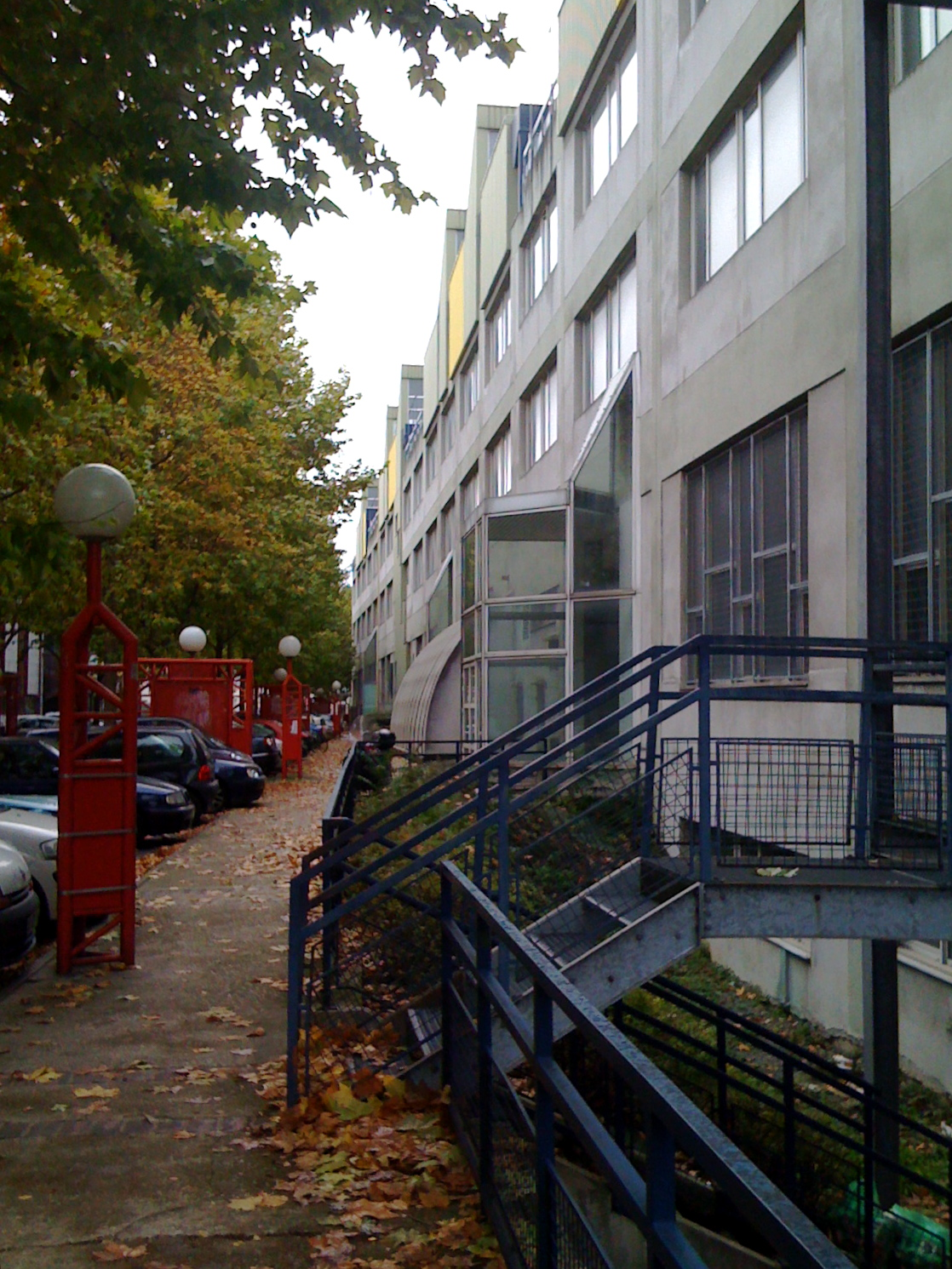 P13's IUT Building (rue de la Croix-Faron, La Plaine Saint-Denis)